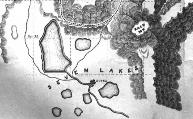 A portion of a drawing of proposed Pikes Peak Railway made in 1883. [Work began on the cog railway in 1888]